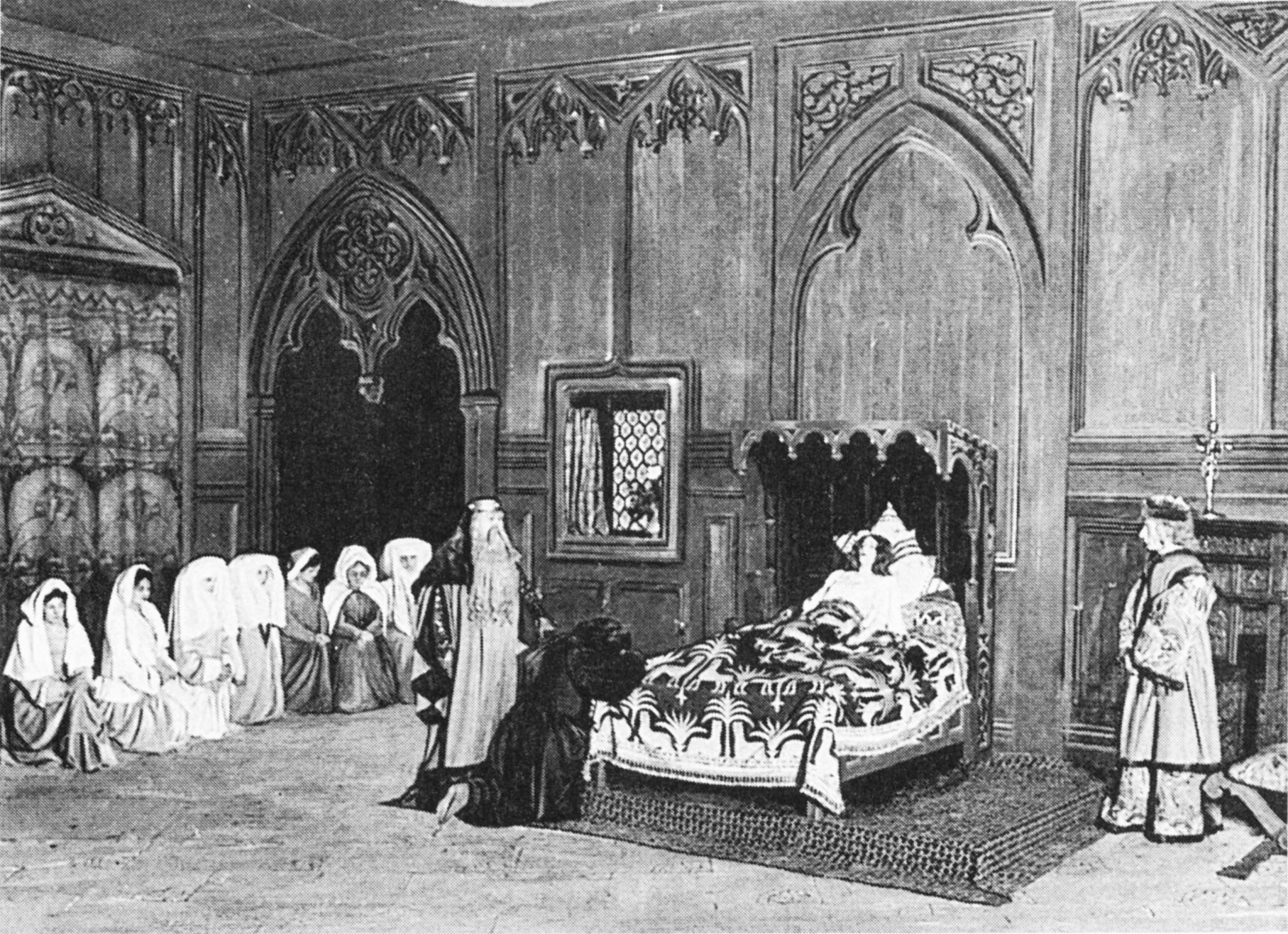 Photograph of Act 5 of the original 1902 production of Debussy's Pelléas et Mélisande, published in Le Théâte, June 1902